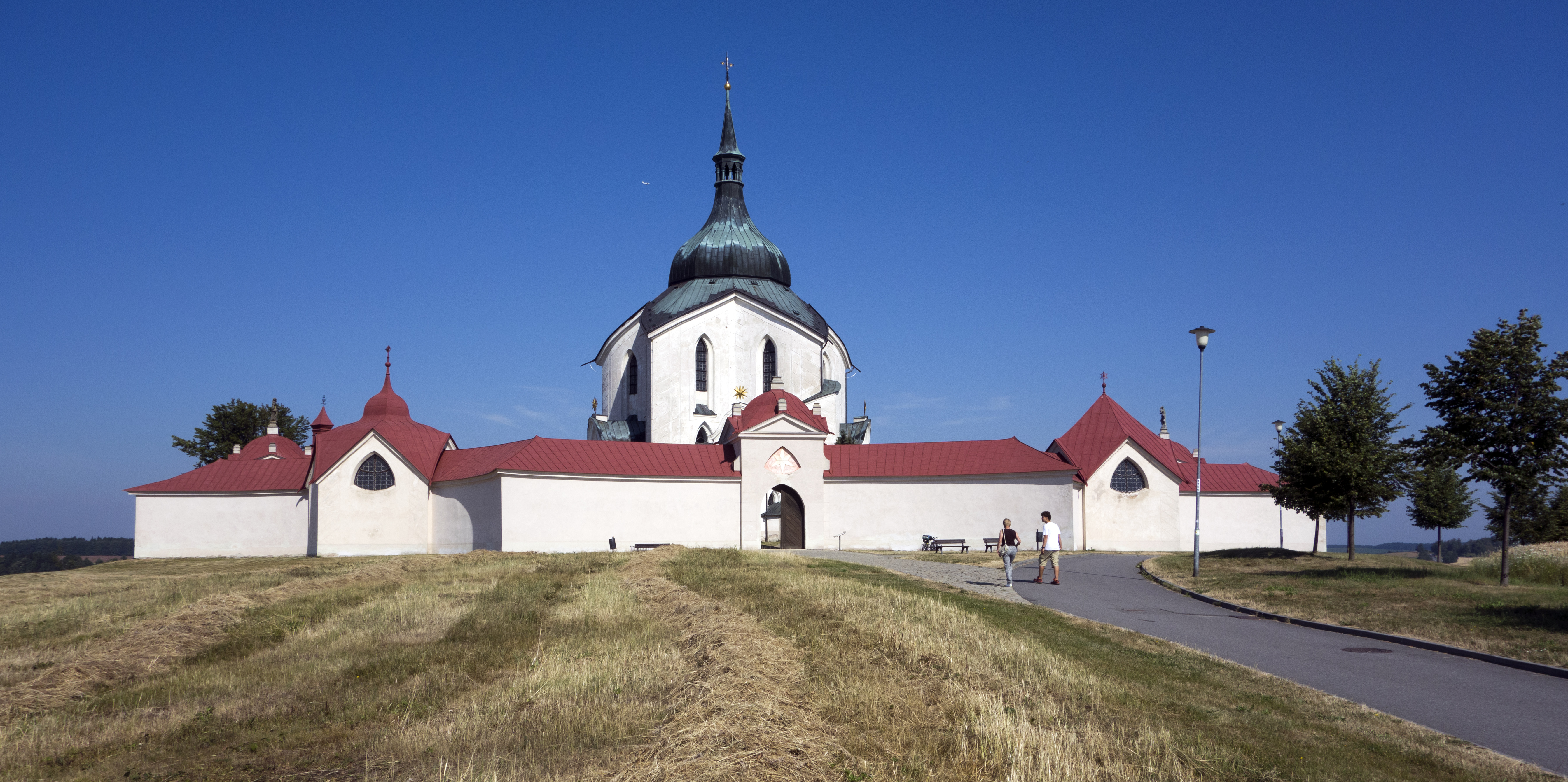 The pilgrimage church of St. John of Nepomuk at Zelena hora is the highest achievement of Jan Blazej Santini-Aichel work and a unique architectural monument, which was included on the Word Heritage of UNESCO in December 1994.